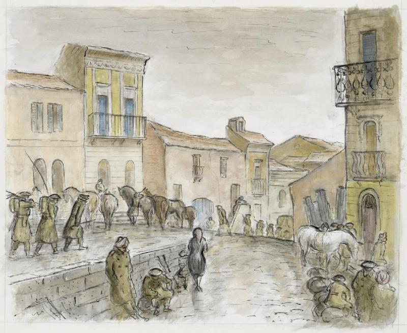 Ardizzone records his visit to Torino di Sangro in his diary on 21 November 1943: 'Two beautiful little hill towns on the way, Casalbordino and Torino di Sangro. The main street of the latter a bustle of mules being loaded up, marching men and vehicles.' A sketch relating to this work can be found under the diary entry for this day (IWM LD 7580 [A]) image:an Italian village street on a hill with a mule train and troops.